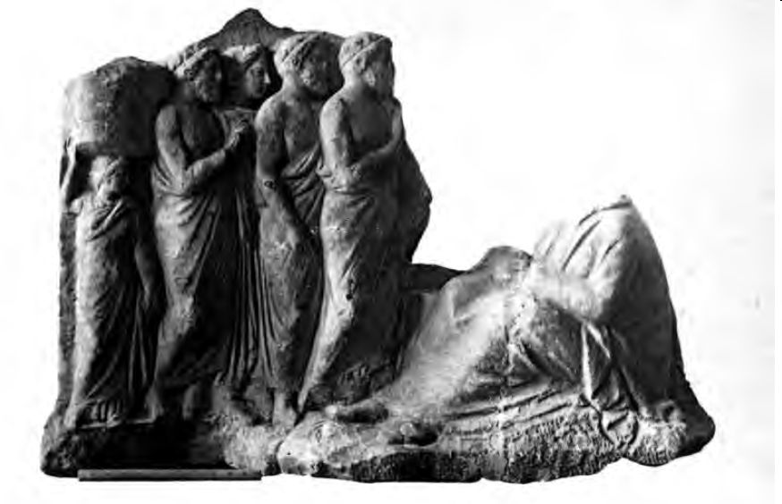 Marmor relief found in the Hieron of Eleusis. According to Otto Rubensohn it shows on the right Demeter sitting on the Agelastos petra (mourning rock). On the left is a group of adorants with a servant maid carrying the mystical ciste on her head.